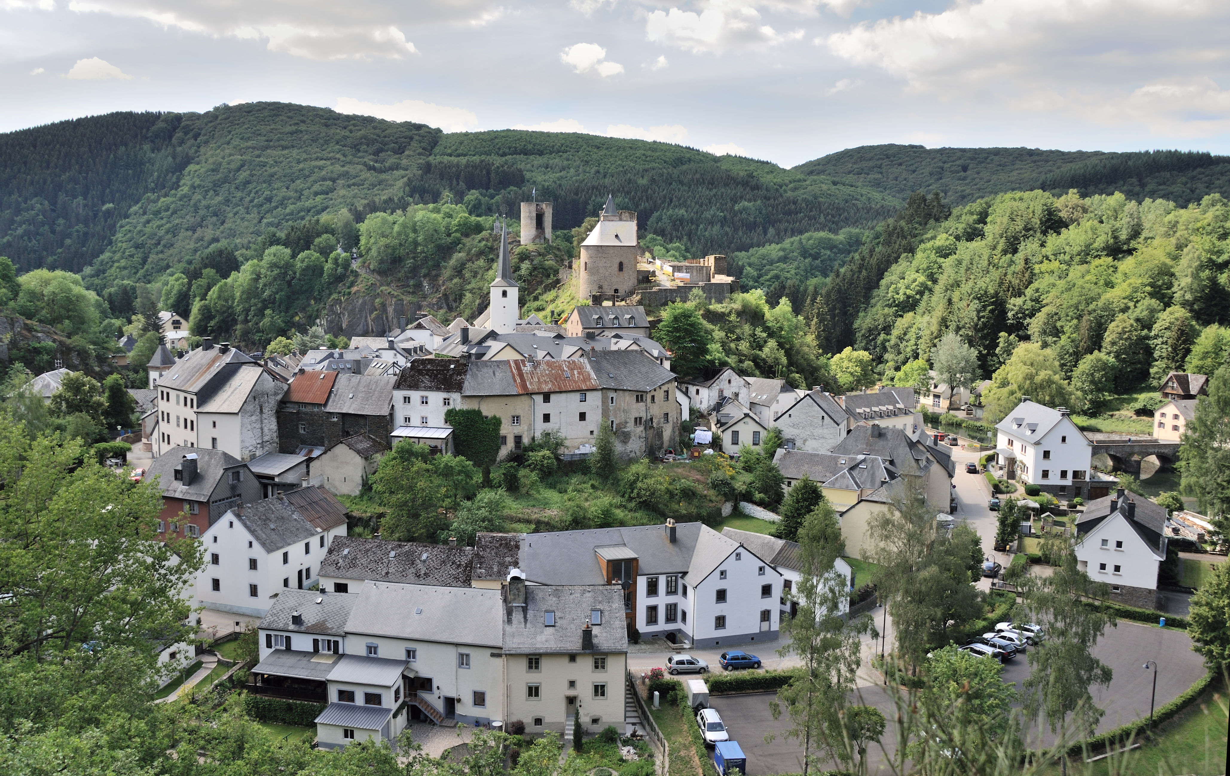 Luxembourg, Esch-sur-Sure i n the Ardenne massif.